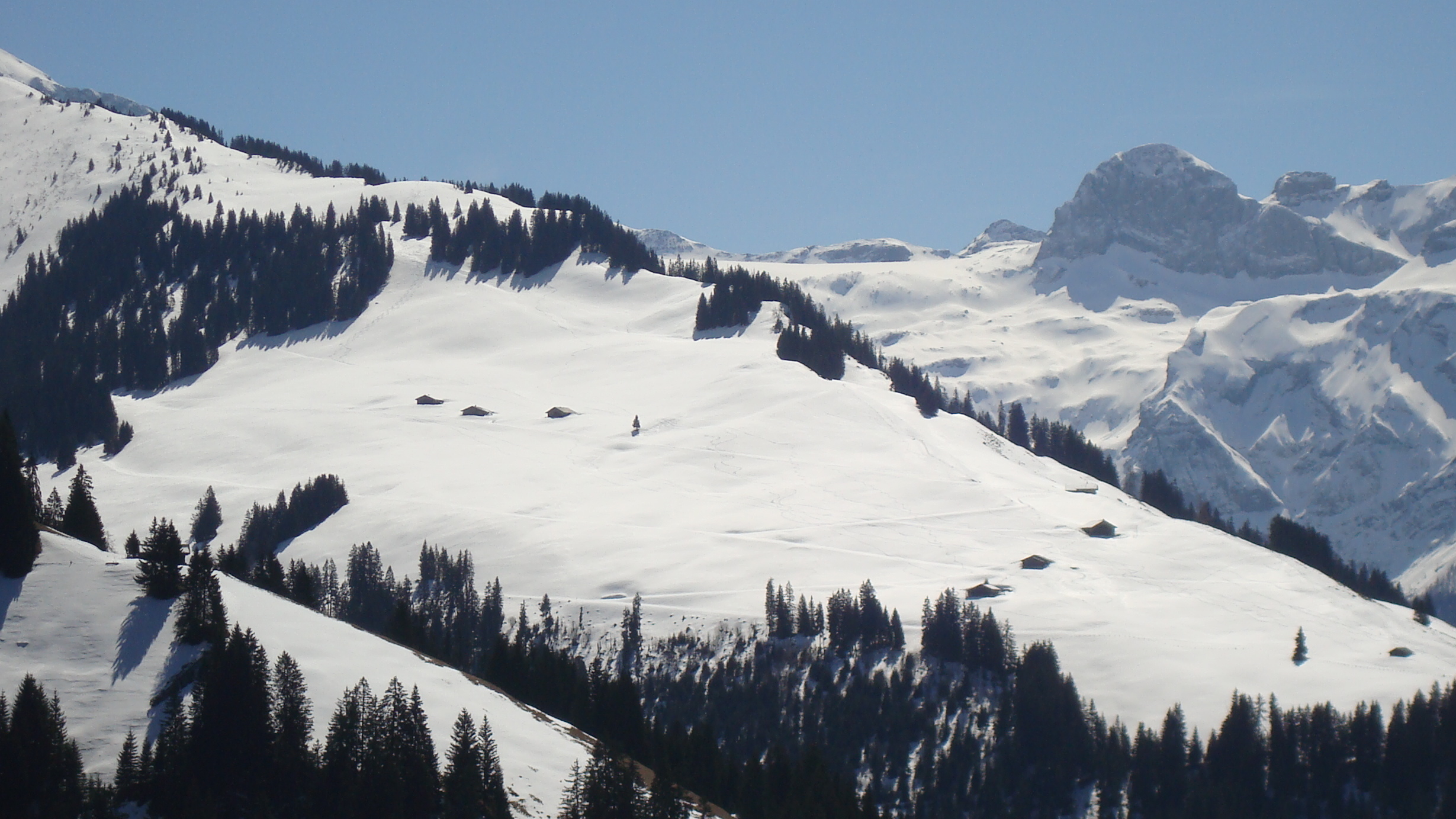 Färmeltal: South-east View from Dachboden towards Glacier de la Plaine Morte and Rohrbachstein